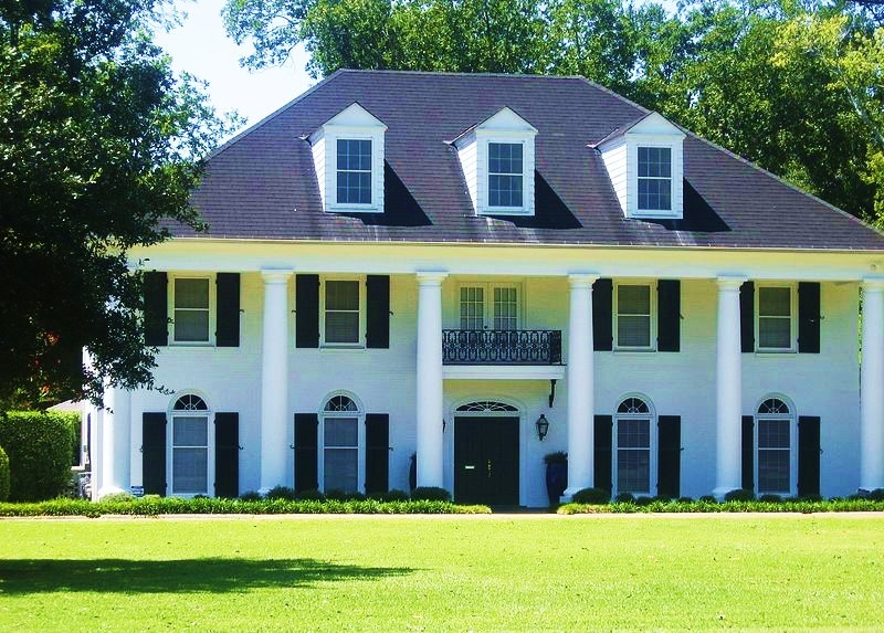 President's House